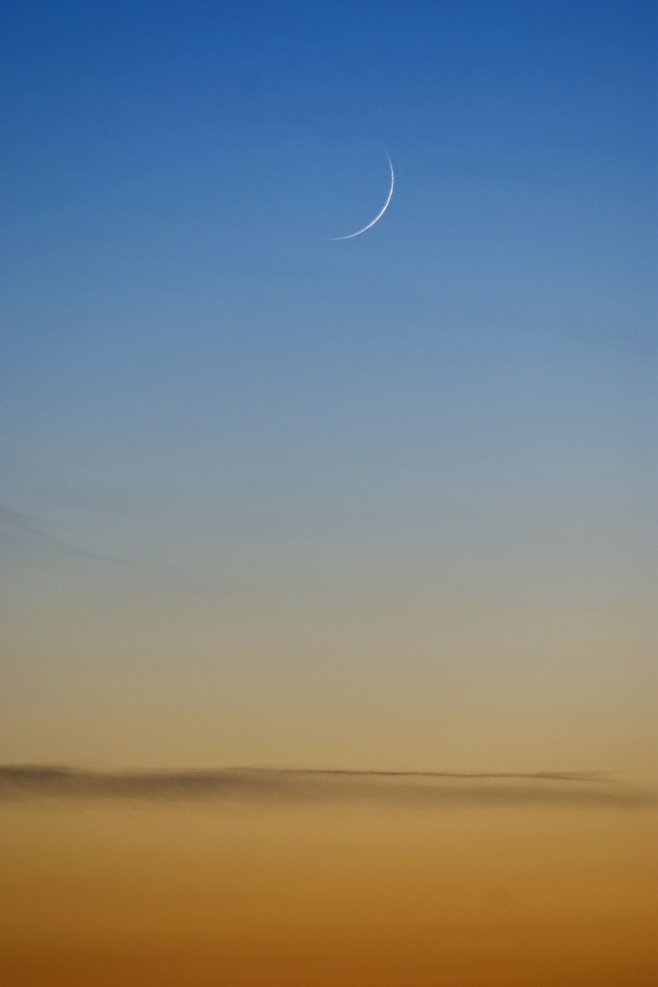 The moon 34 hours after new moon. Järvenpää, Finland.